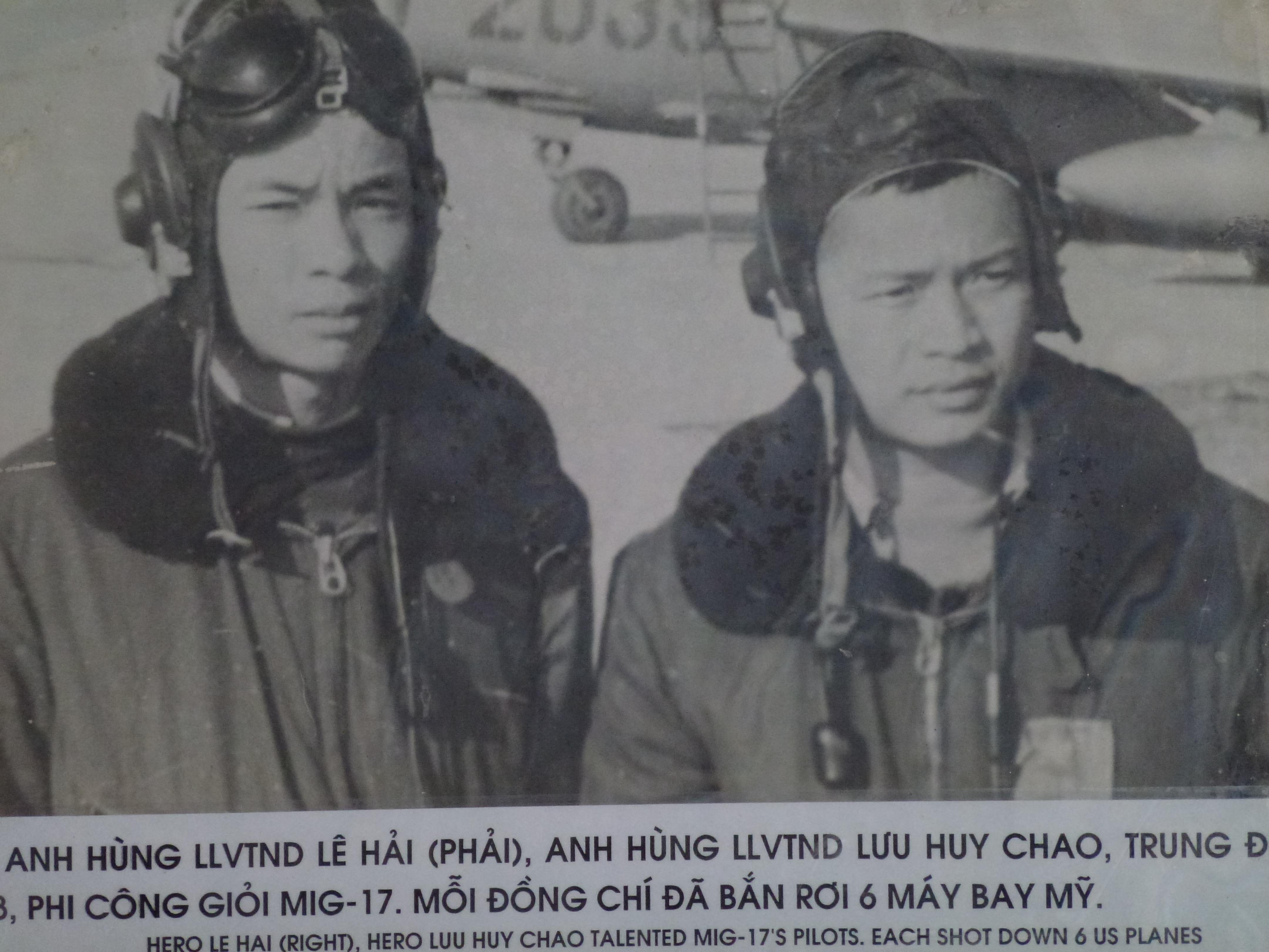 Hero Luu Huy Chao (left) and hero Le Hai, who talented MIG 17's pilots and shot down 6 US planes